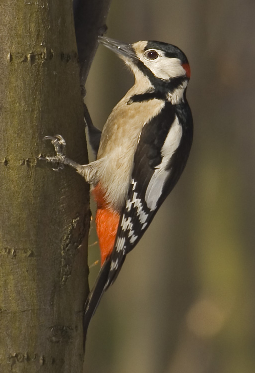 Great Spotted Woodpecker (Dendrocopos major) .